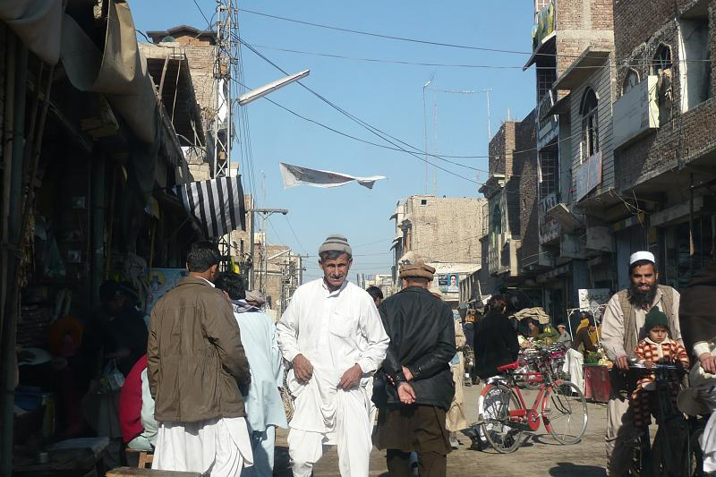 People in the streets of Bannu